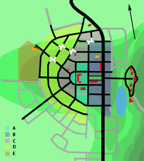 Sketch of the 1926 City Plan of Boliden, Västerbotten, Sweden. Plan by Tage William-Olsson.